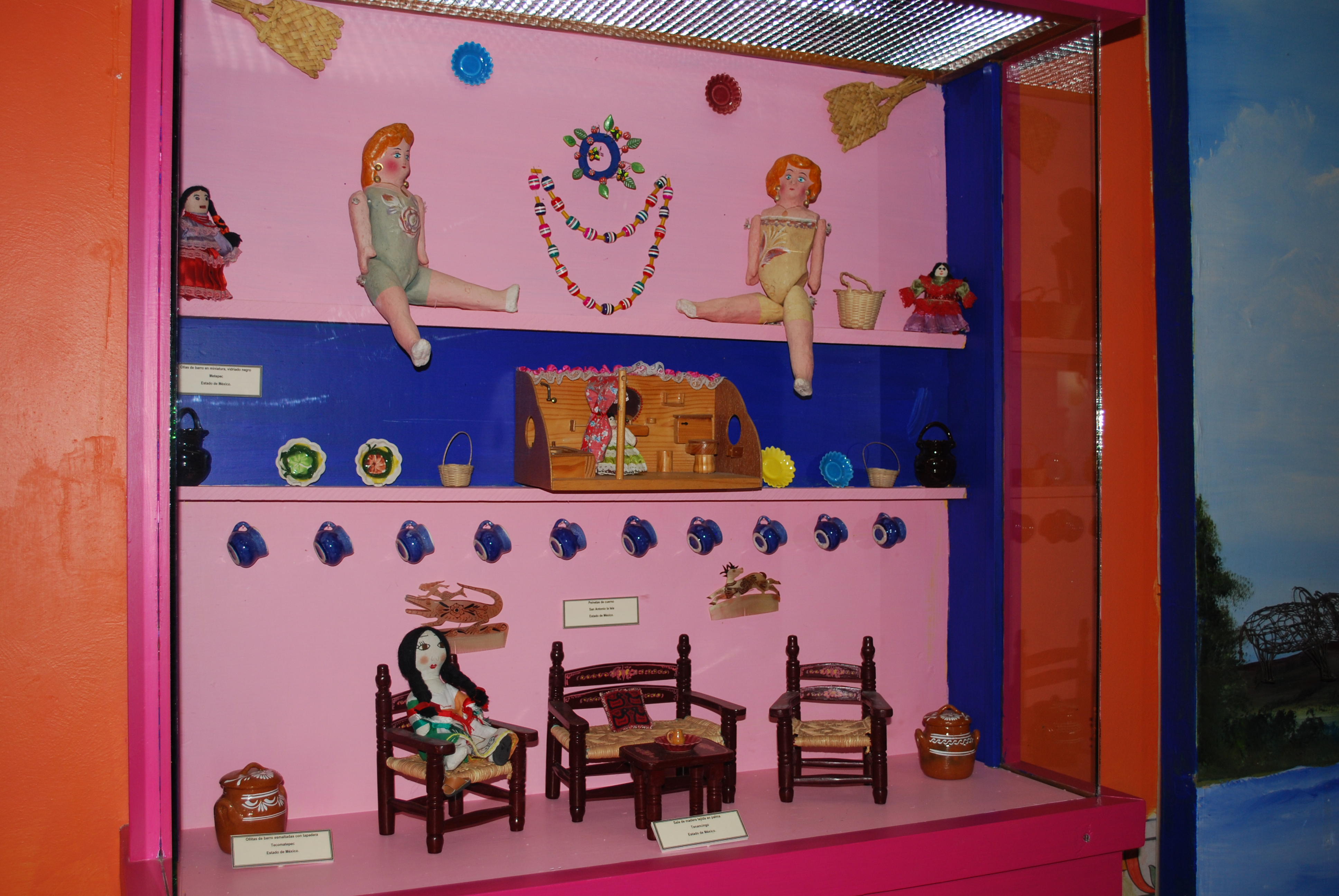 One of the displays at the toy room of the Museo de Culturas Populares at the Centro Cultural Mexiquense in Toluca